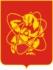 Zheleznogorsk (Krasnoyarsk krai), coat of arms